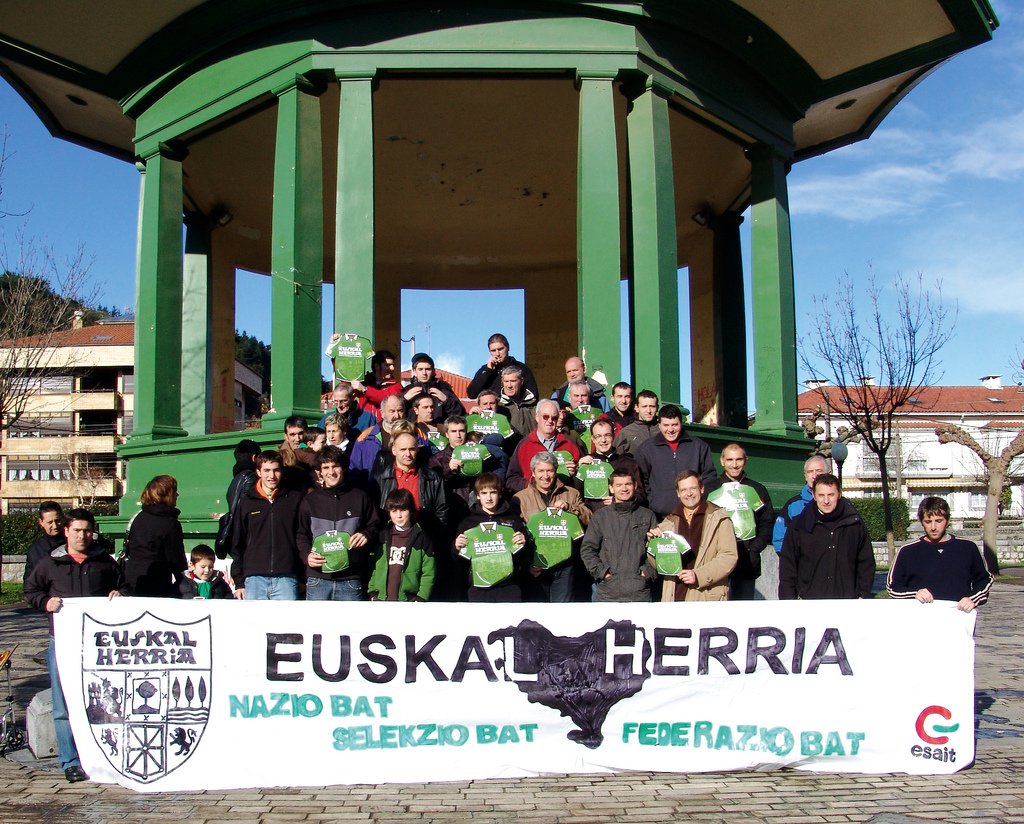 ESAIT demonstration in Deba, Basque Country.